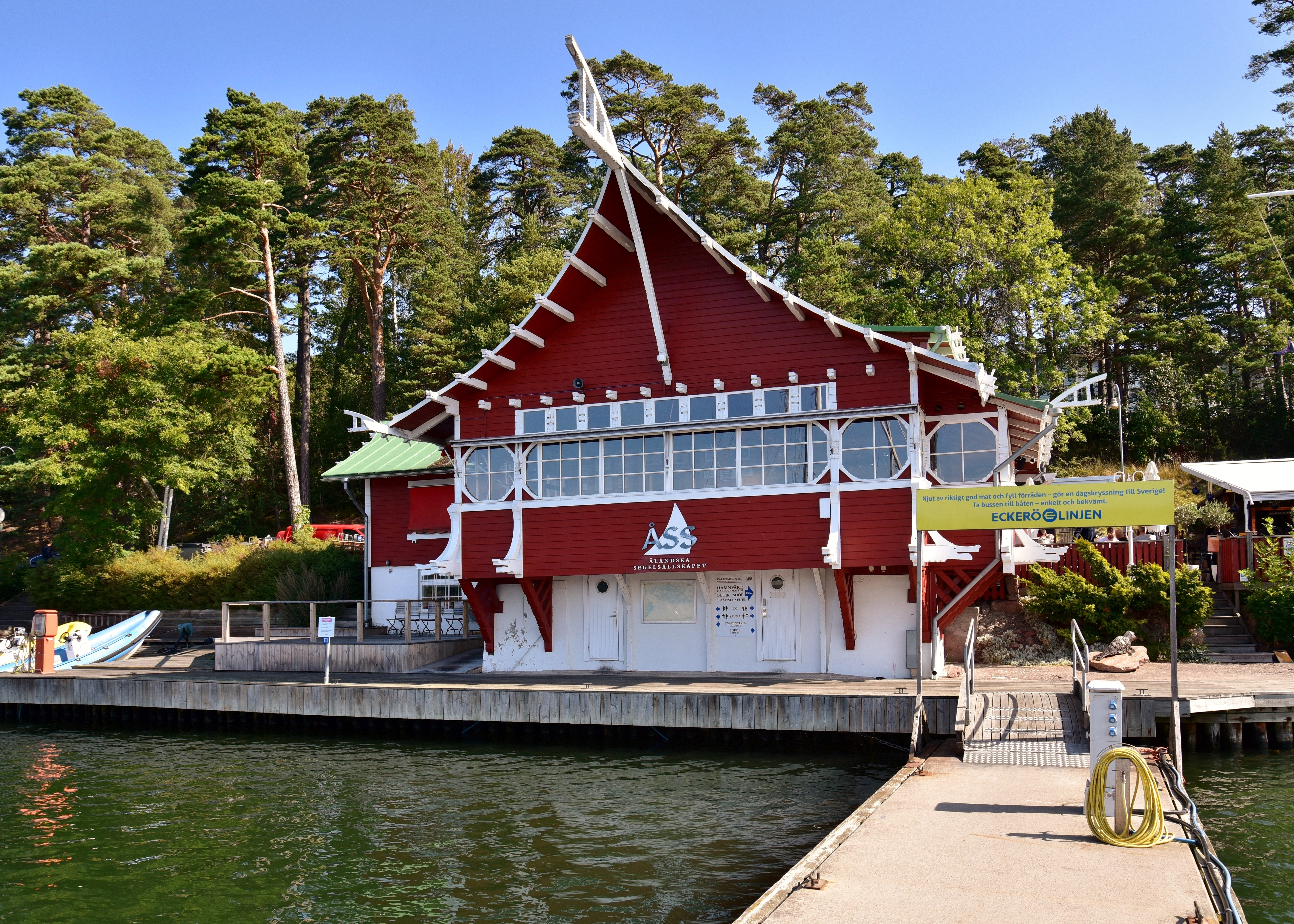 View of the Segelpaviljongen, the clubhouse of the Åländska Segelsällskapet (Åland Sailing Society), in Mariehamn, Åland Islands, Finland